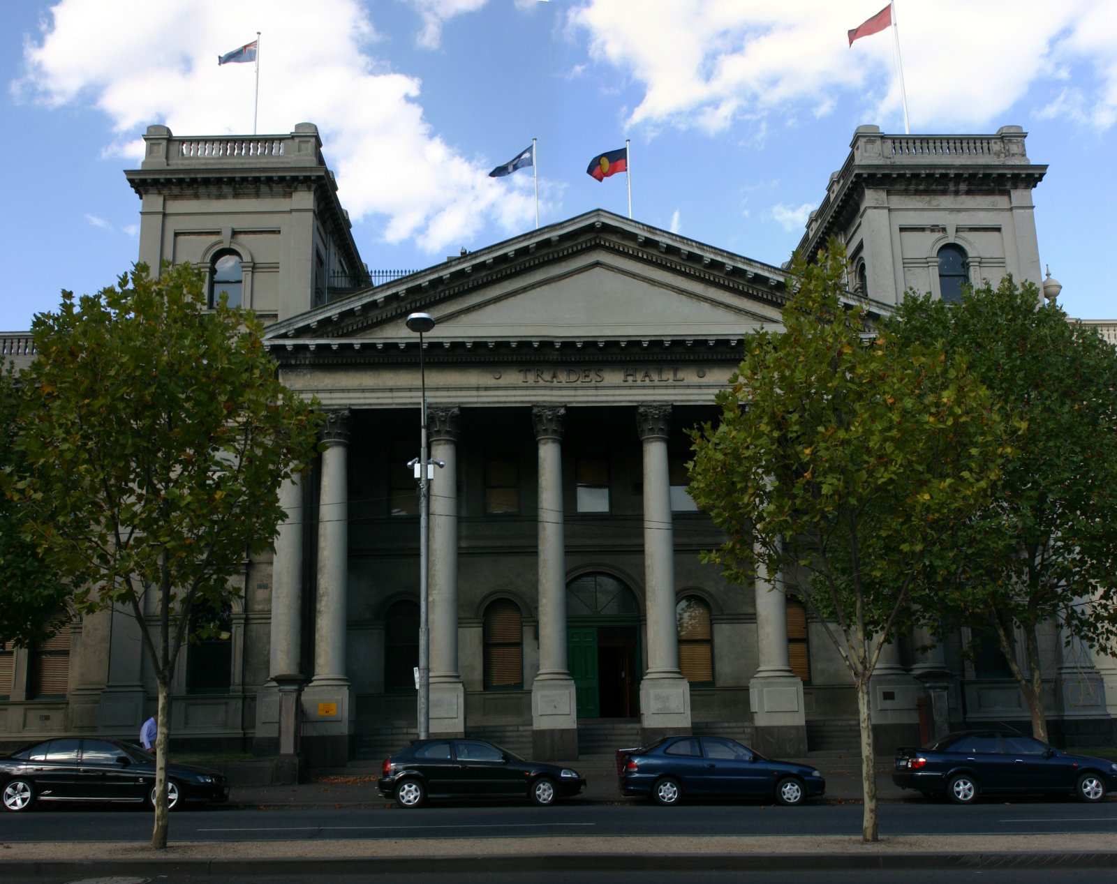 Melbourne Trades Hall main entrance on Lygon Street, Carlton. Photo by Takver ( taken March 2005 and released under the GNU FDL. Category:Images of buildings and structures in Melbourne